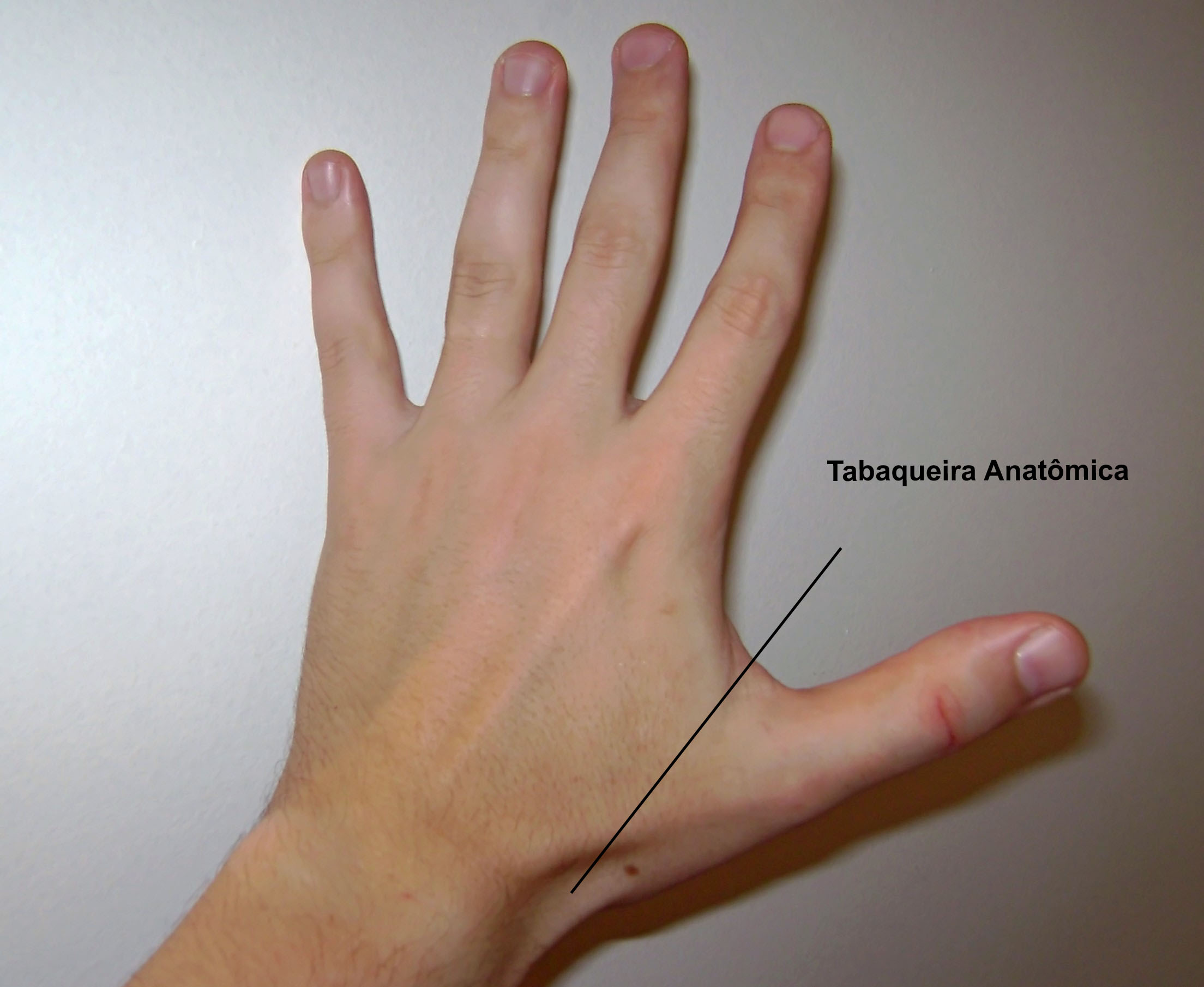 Anatomical Snuffbox - Tabaqueira Anatômica